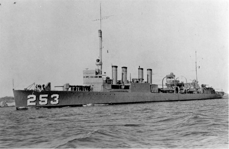 The U.S. Navy destroyer USS McCalla (DD-253) underway, circa the early 1920s.